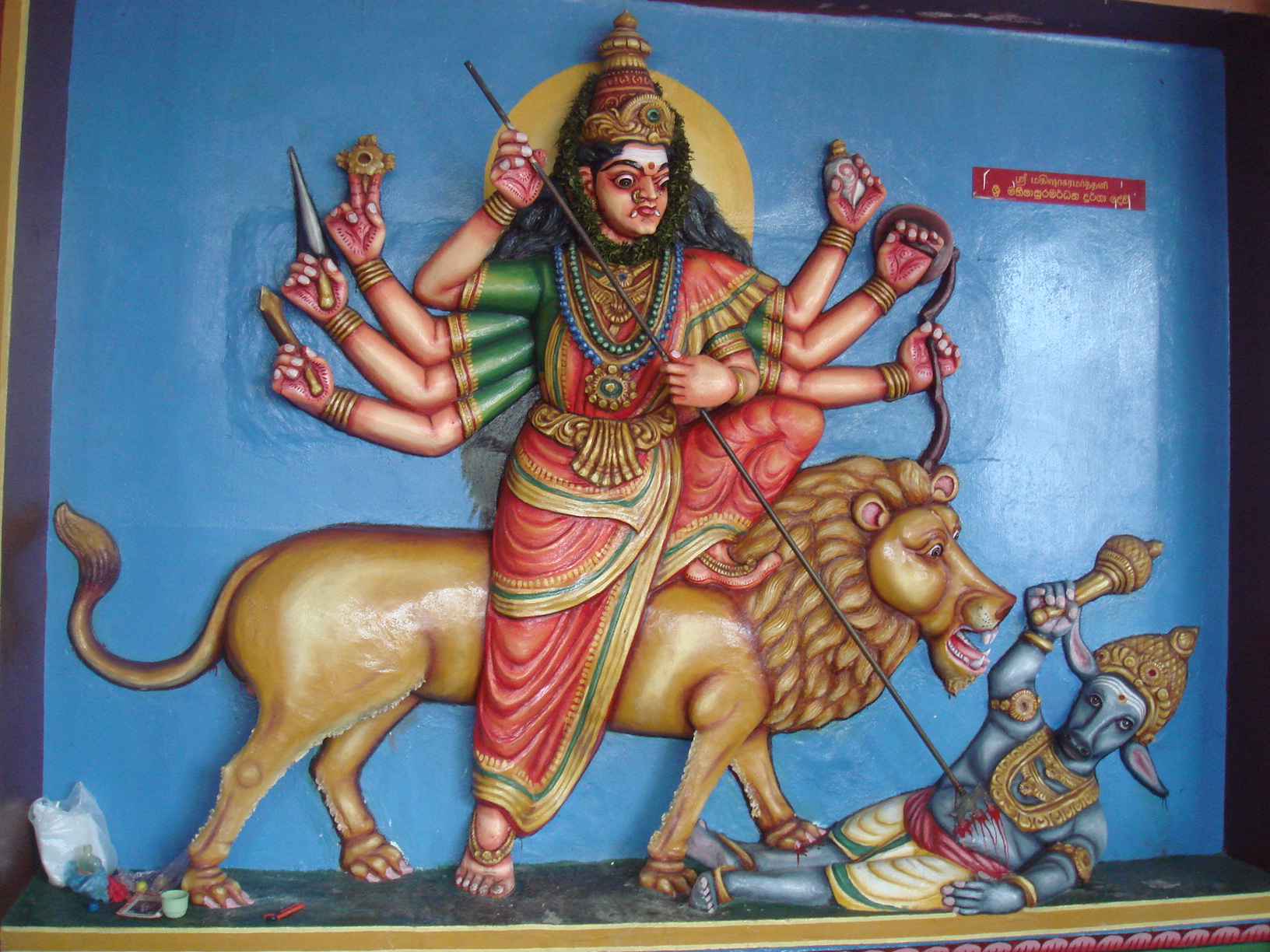 Pane view within the Kali shrine in Munneswaram that depicts the deity killing a demon in a buffalo form.